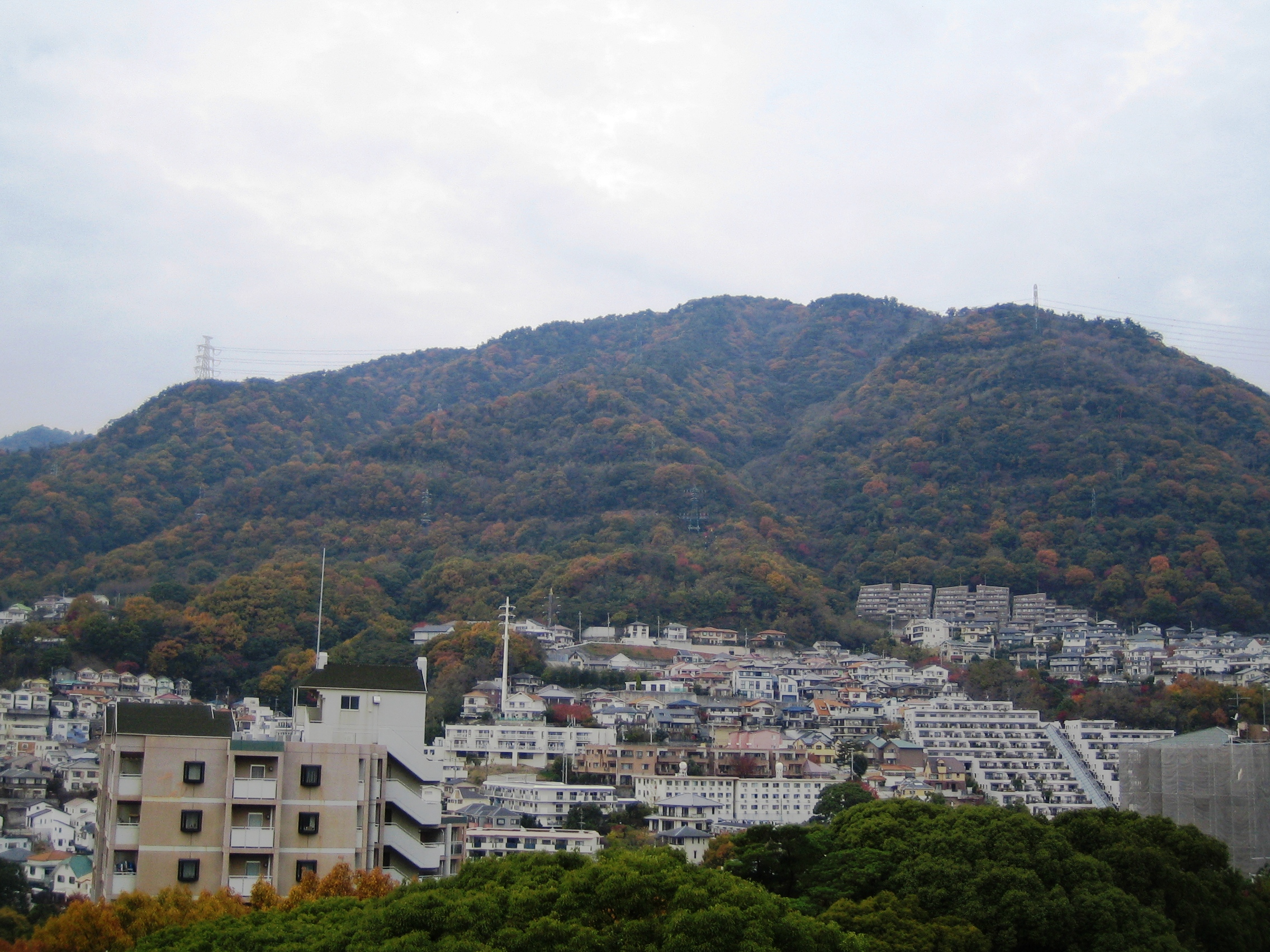 Mount Nagamine of Rokko Mountains from Kobe University, Kobe, Hyogo, Japan.